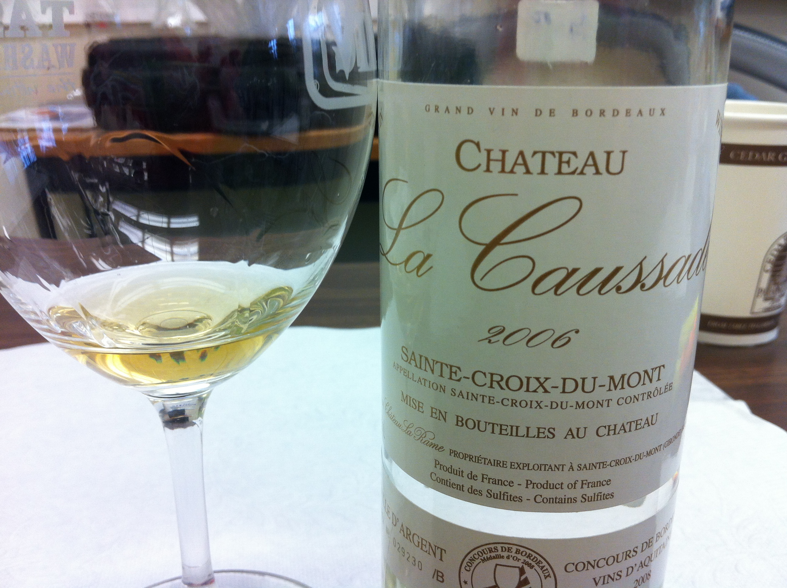 French dessert wine from the Bordeaux AOC of Sainte-Croix-du-Mont made from noble rot